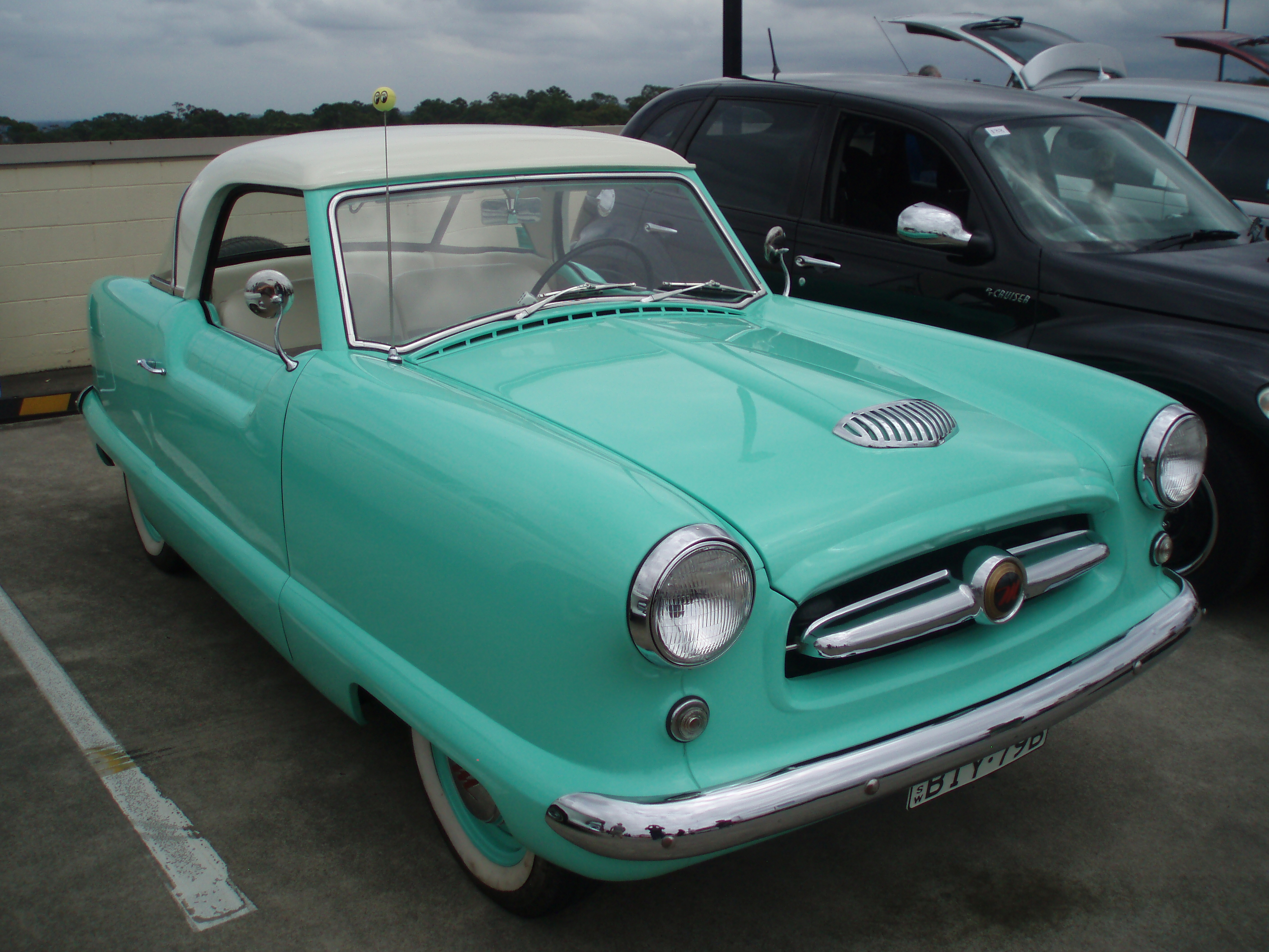 1954 Nash Metropolitan. Taken at the 2011 New South Wales All American Day, held at Castle Towers Shopping Centre, Castle Hill, Sydney.